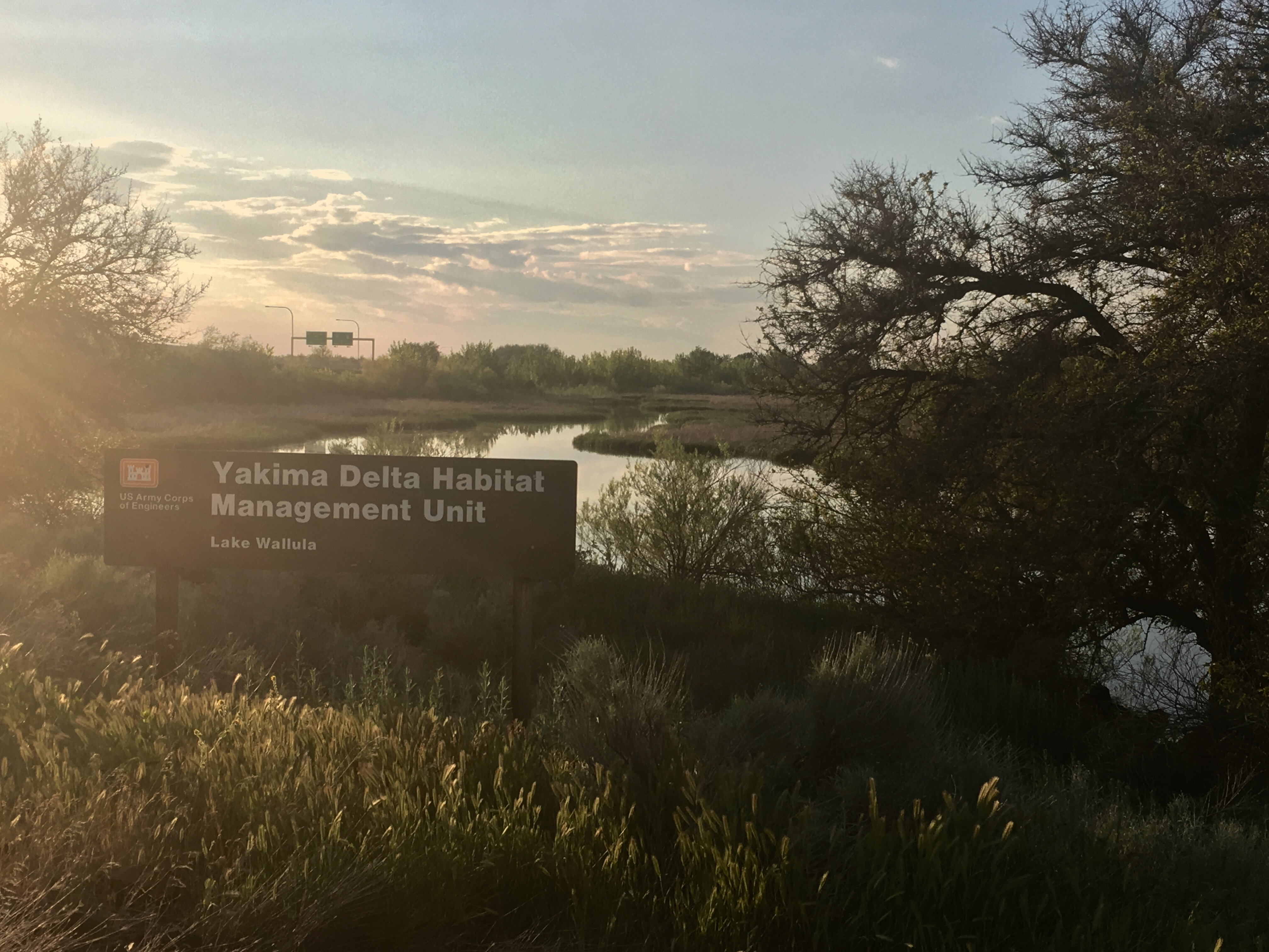 A sign for the Yakima Delta Habitat Management Unit as seen from the Sacagawea Heritage Trail.